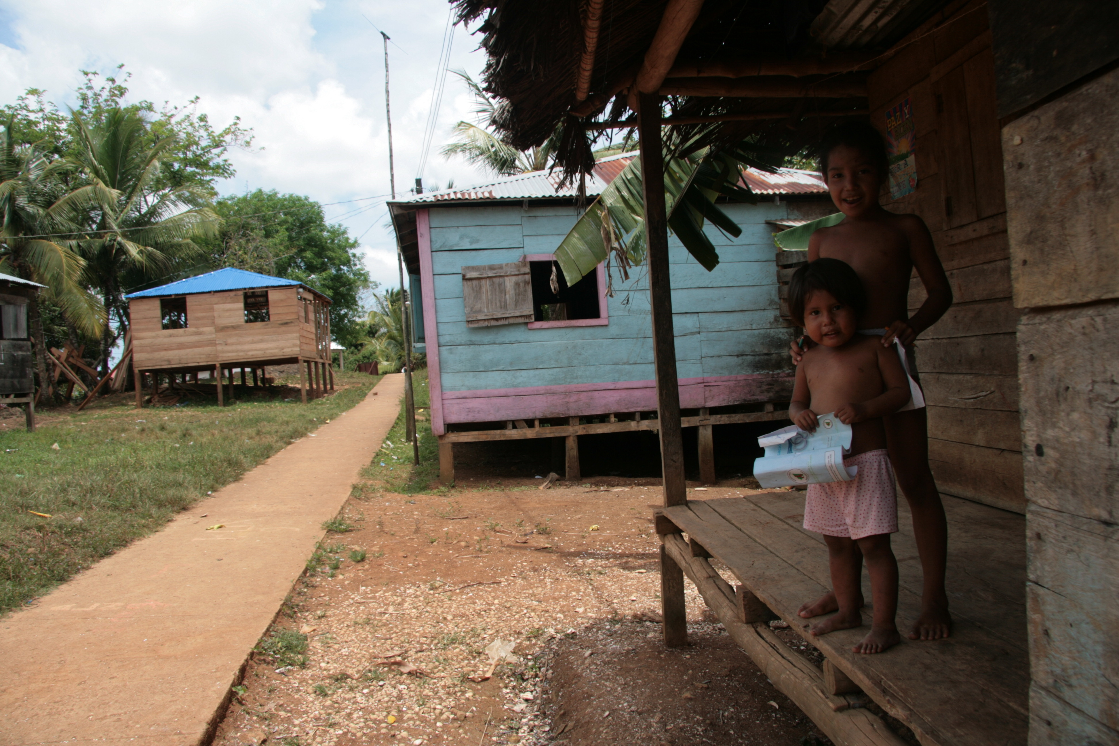 Rama Cay, Nicaragua